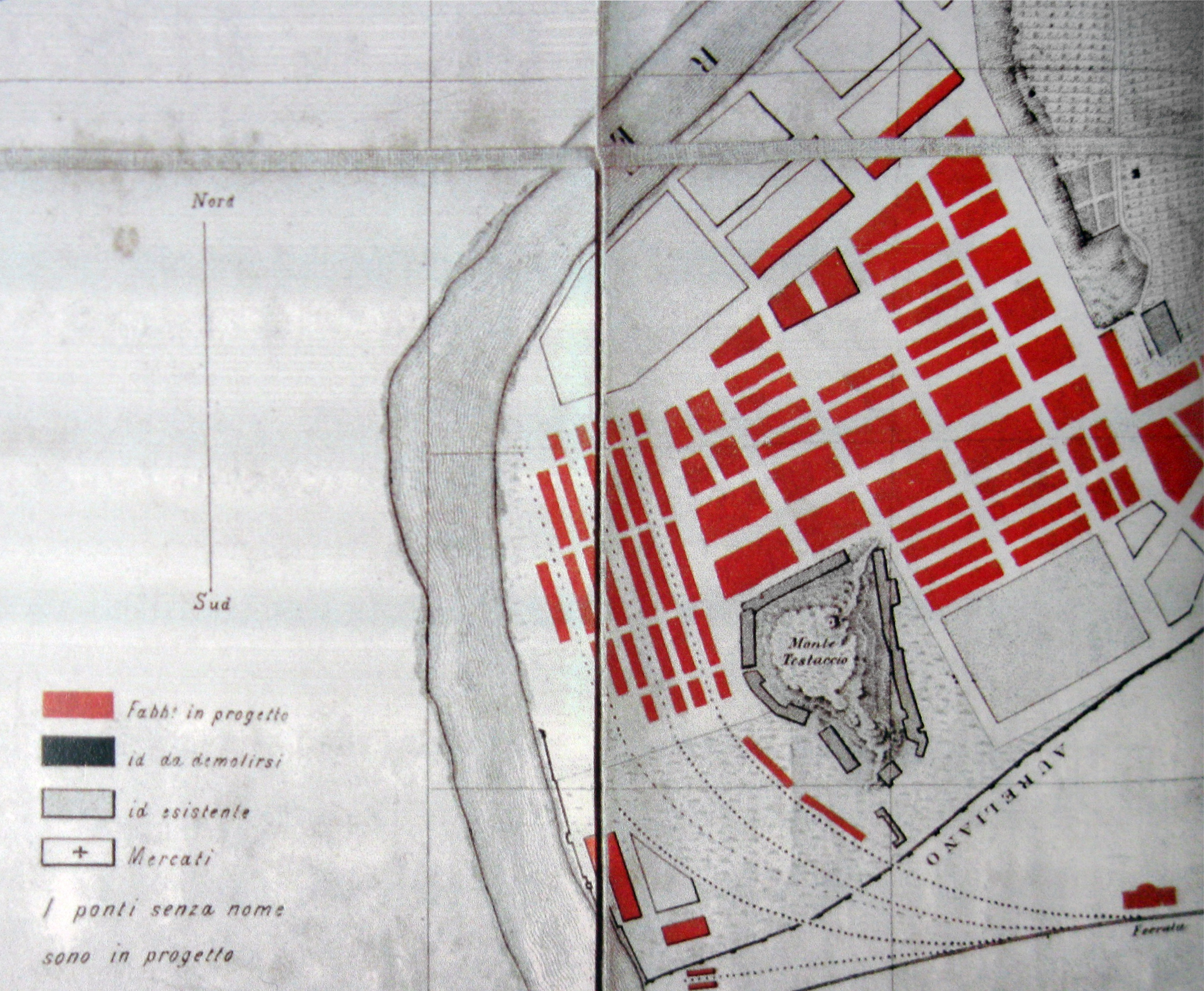 1873 Rom Bebauungsplan